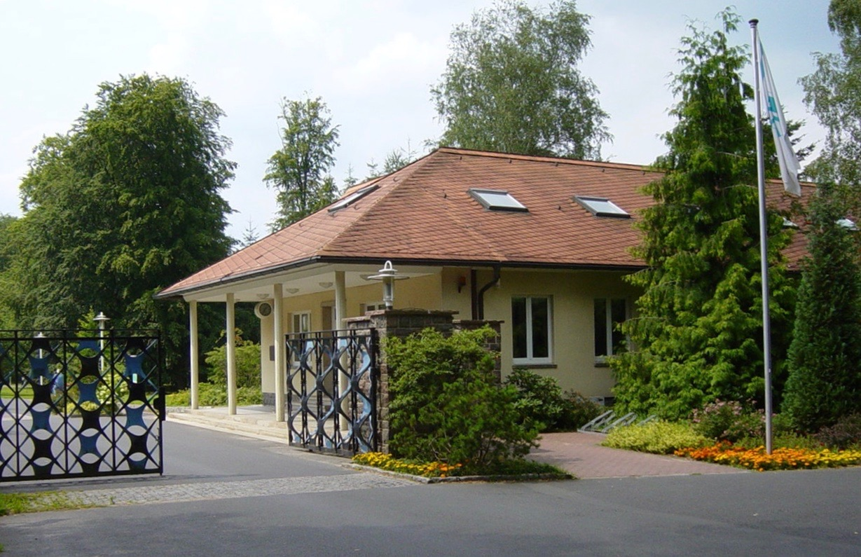 Bernau bei Berlin, entrance to the Waldsiedlung (today an hospital).